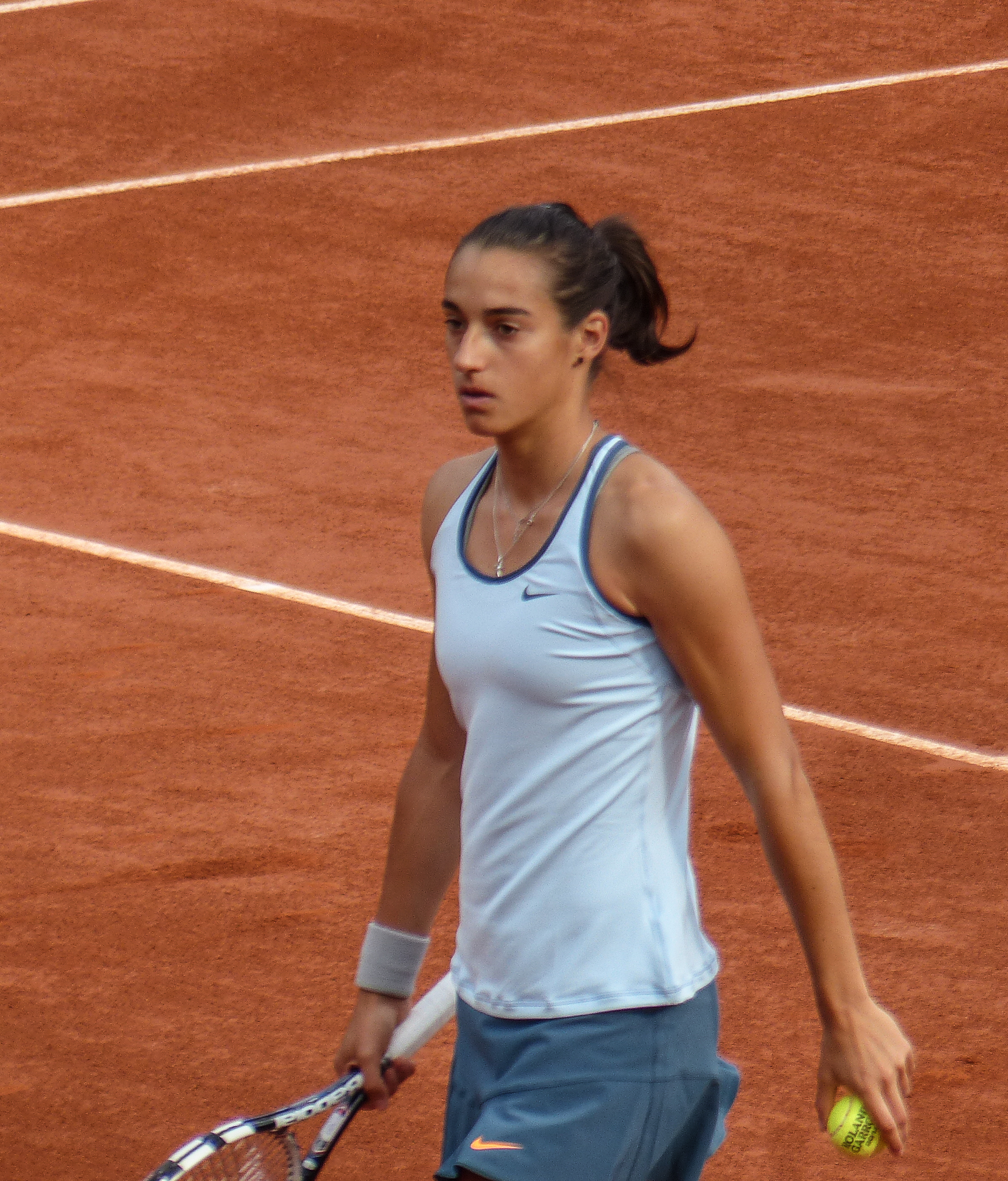 2ème tour Roland Garros 2013 : Serena Williams (USA) def. Caroline Garcia (FRA)